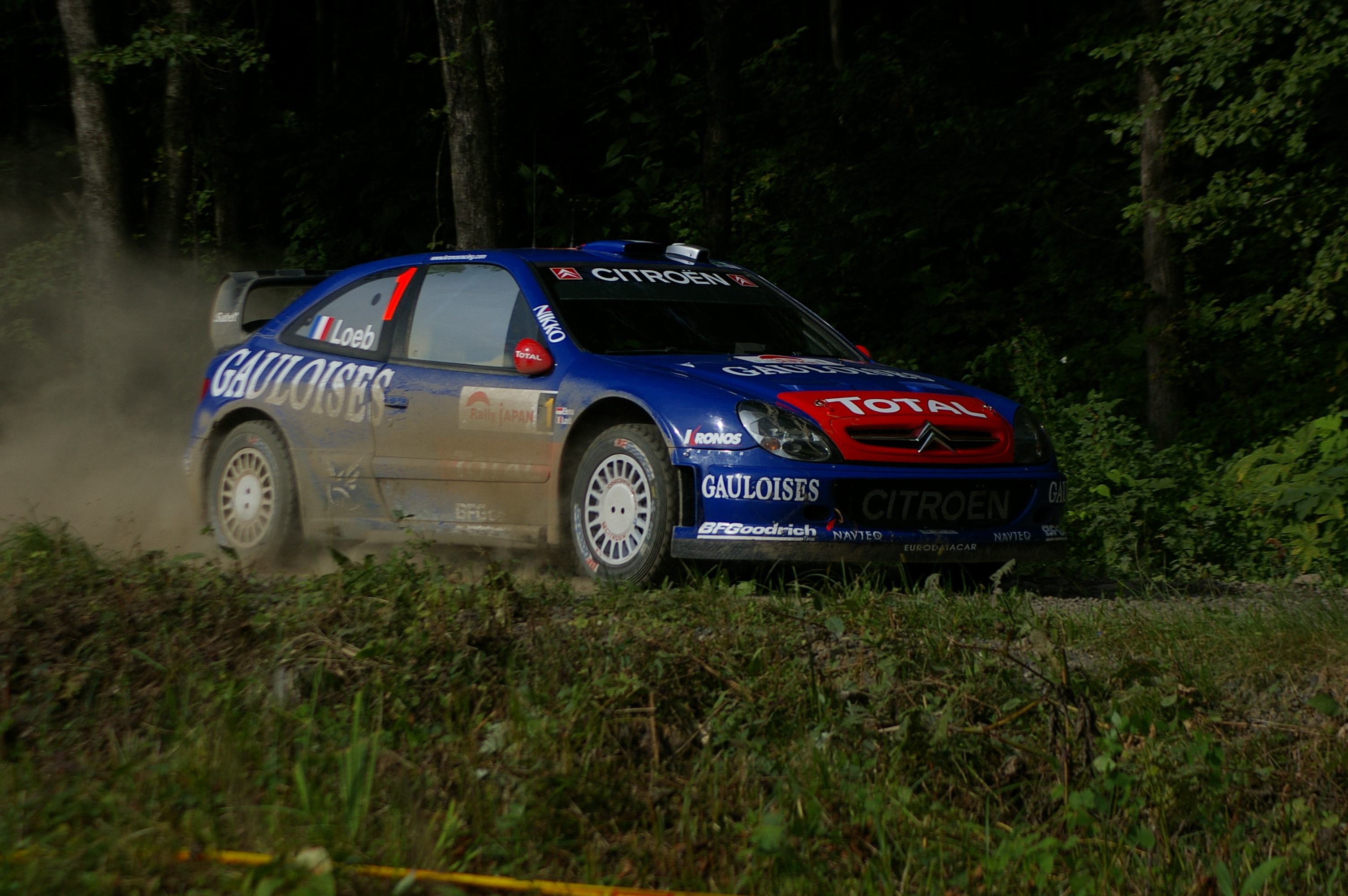 Citroën Xsara WRC'05 in RallyJapan2006.